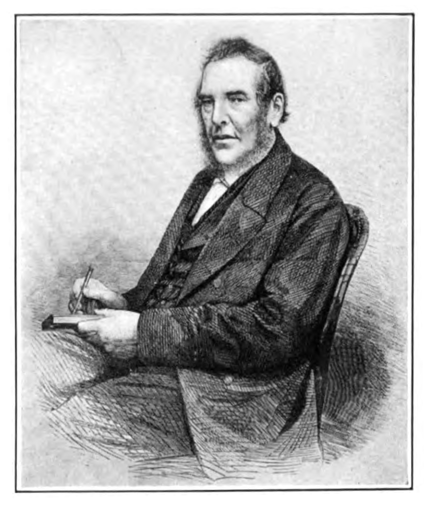 A (drawing) portrait of Richard Roberts (1789-1864), a British engineer.